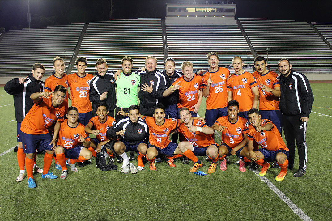 San Diego Zest FC members celebrating after defeating FC Golden State Force 5-1 on June 16, 2016.